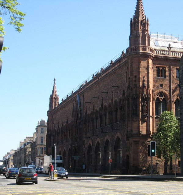 The impressive Scottish National Portrait Gallery,1 Queen Street, Edinburgh. I have been informed that the Museum of Antiquities has been incorporated at the Scottish National Museum in Chambers Street, (more to follow)